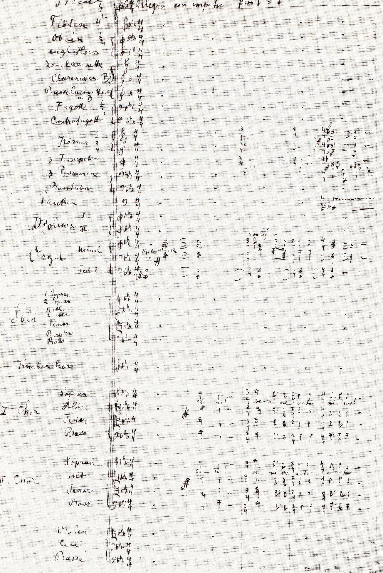 First page of manuscript score, Part I of Symphony No. 8 in E flat major by Gustav Mahler. The symphony was first performed 12 September 1910 in Munich. US premiere March 1916